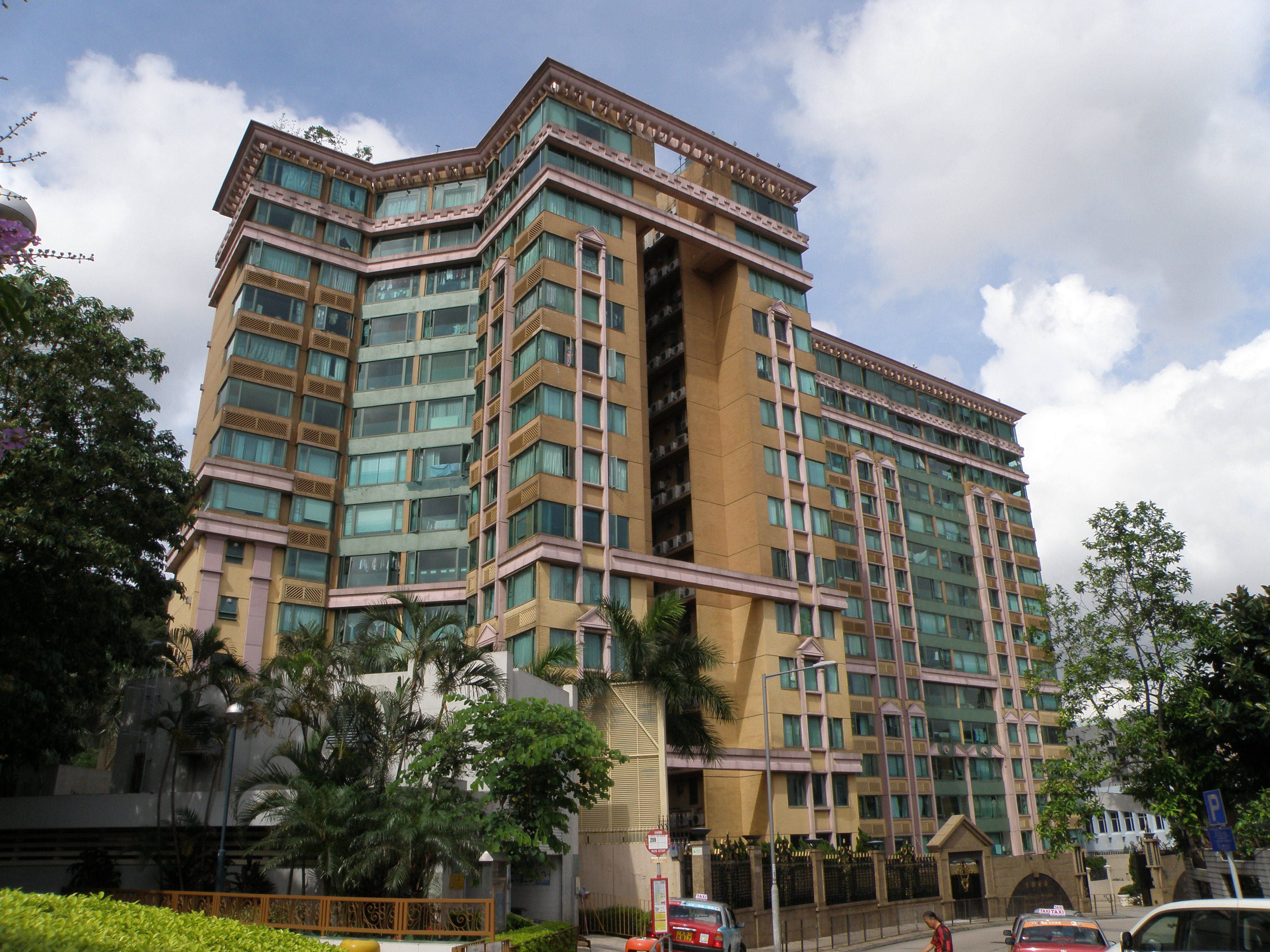 Peninsular Heights in Broadcast Drive, Hong Kong.